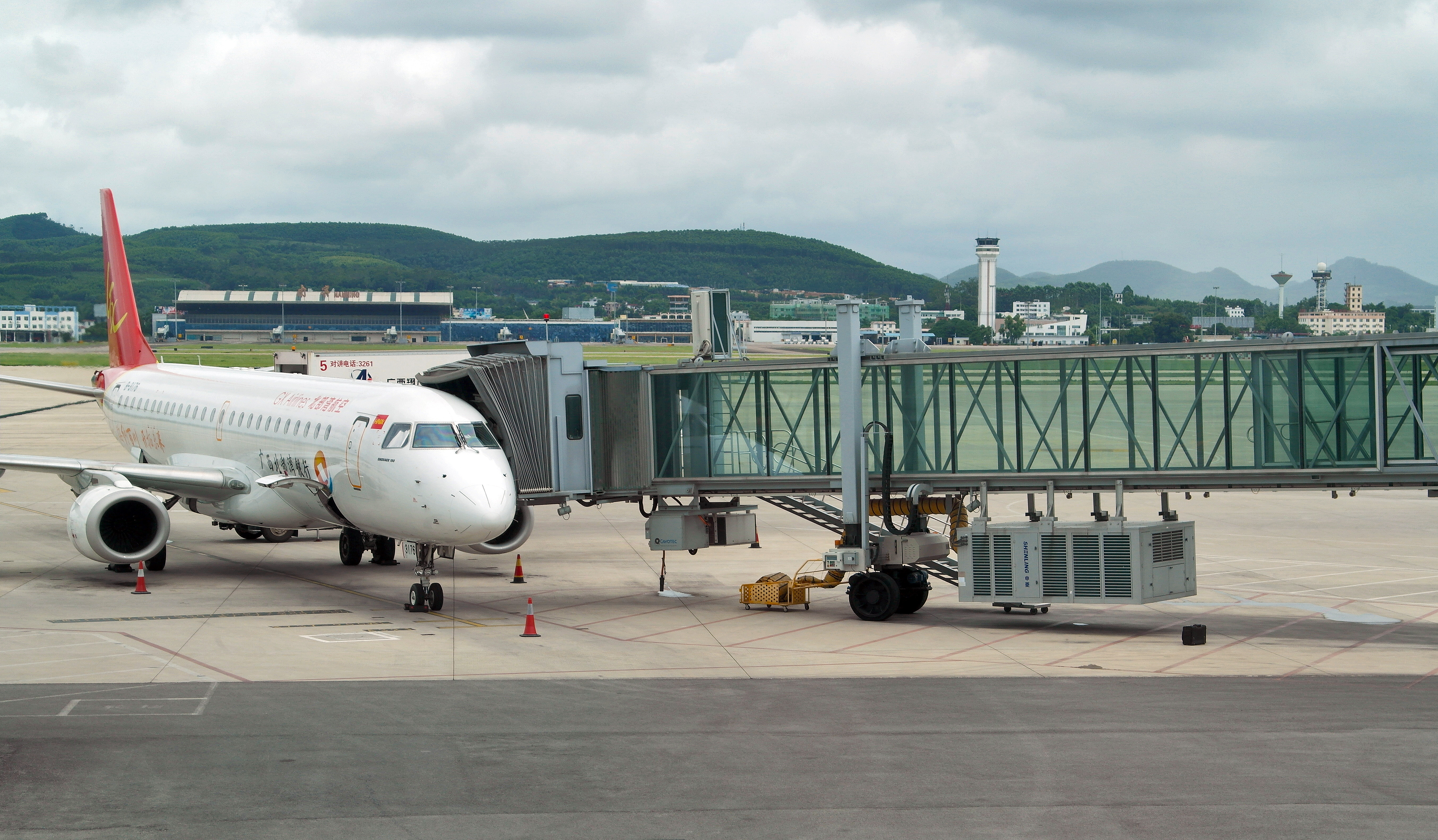 SAMSUNG CSC